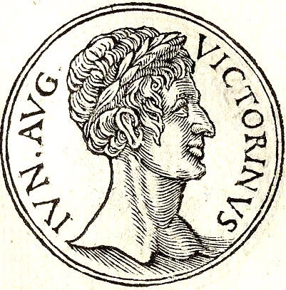 Victorinus iunior (died 271) was an usurper against Roman Emperor Aurelian, according to the Historia Augusta. He is included in the list of the Thirty Tyrants.